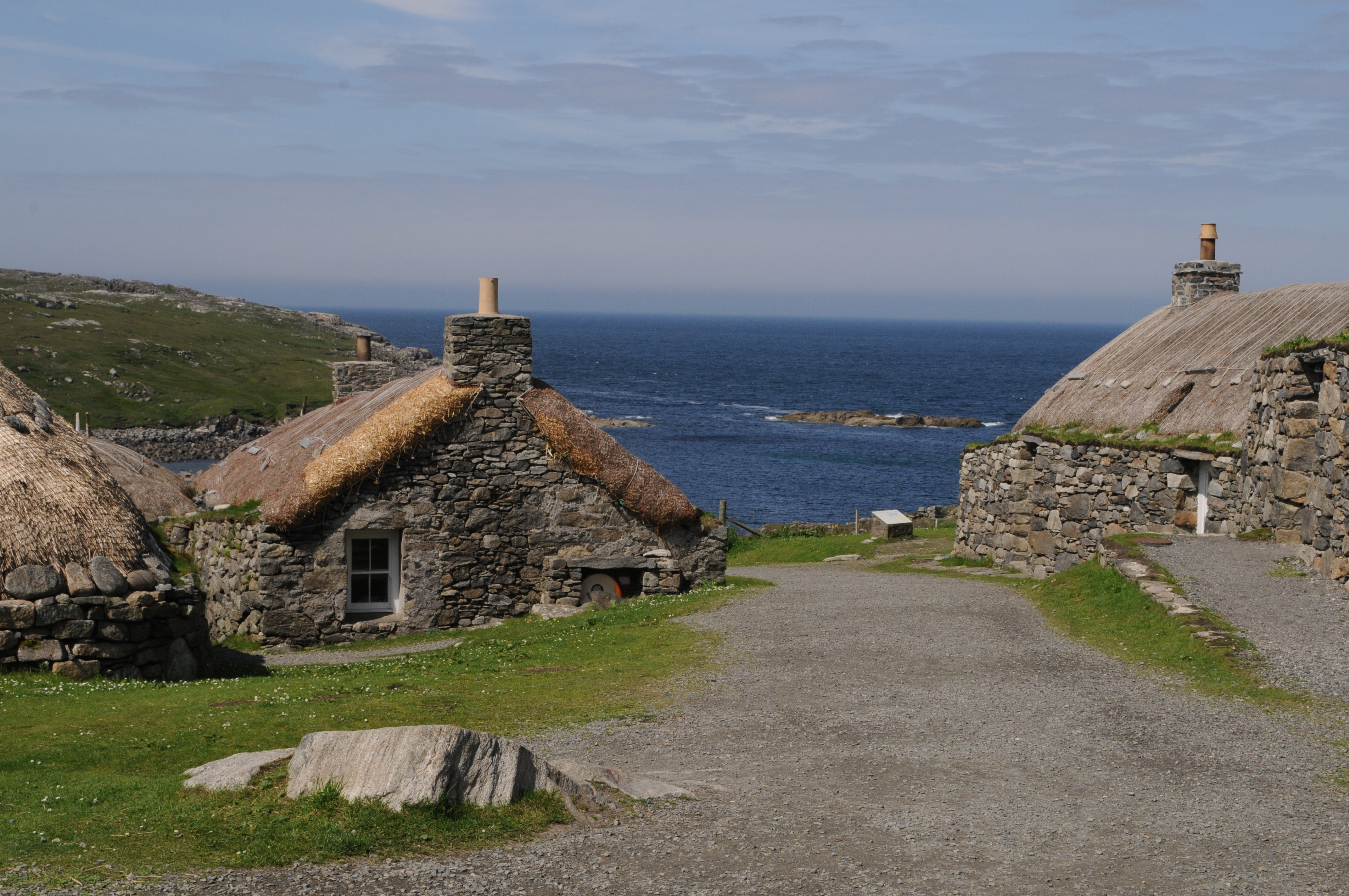 The Gearrannan Blackhouses harbour view